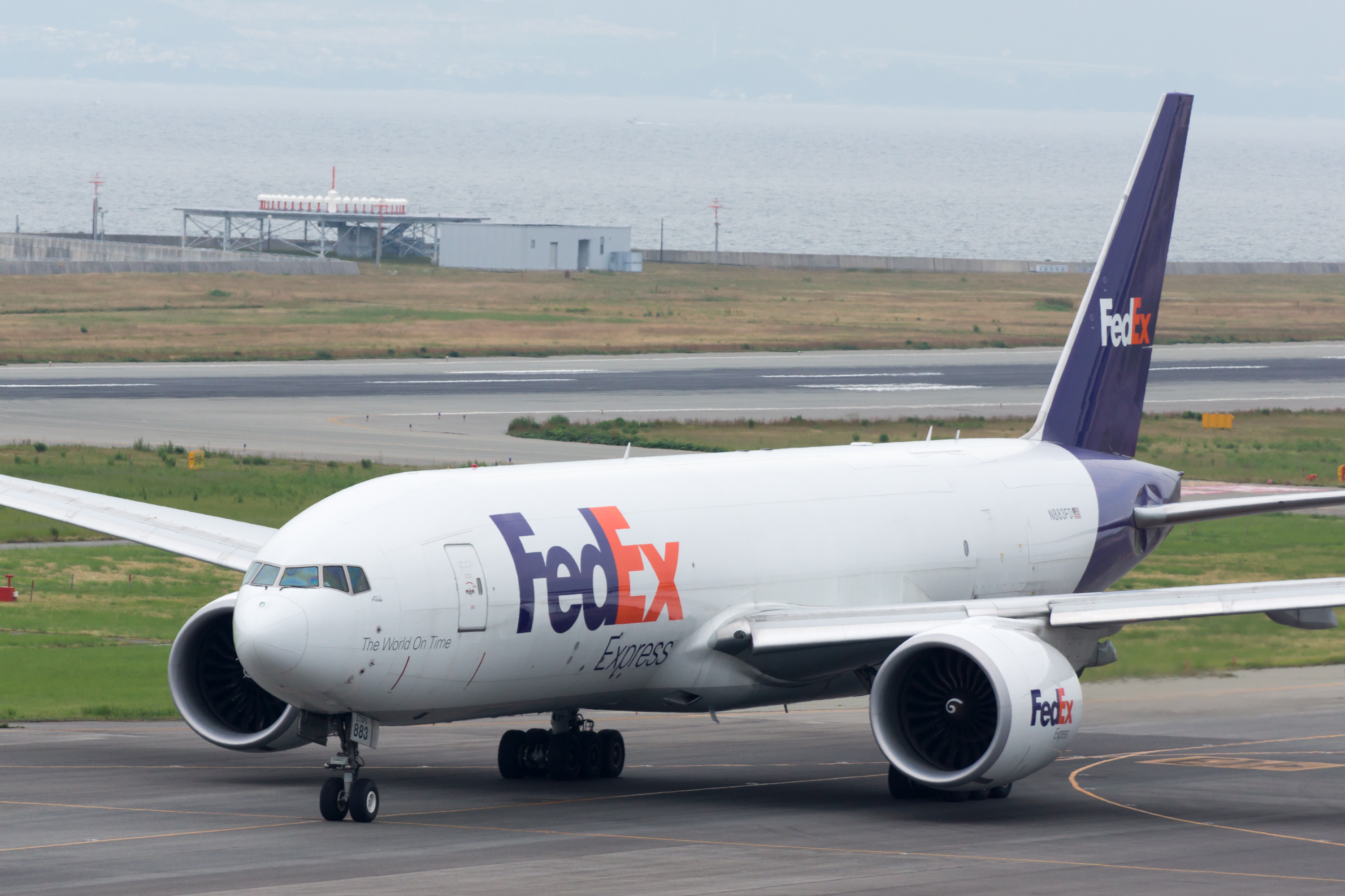 FedEx Express / フェデックス・エクスプレス Boeing 777-FHT N883FD FX5192, Departed to Guangzhou Osaka Kansai Int'l Airport